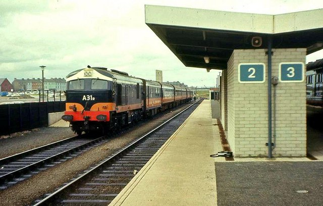 Portadown railway station Original description: Portadown (Craigavon West) station The old Ulster Railway station at Watson Street closed in 1970 to make way for the Northway. It was replaced by this station with the unwieldy name “Portadown (Craigavon West)”. The train is the 08.30 Dublin – Belfast “Enterprise”. When the photo was taken the bombing campaign had dramatically reduced the number of passengers travelling on cross-border trains. One generating van (CIE locomotives were non-ETH), one first-class coach, a dining car and three standards were more than sufficient.